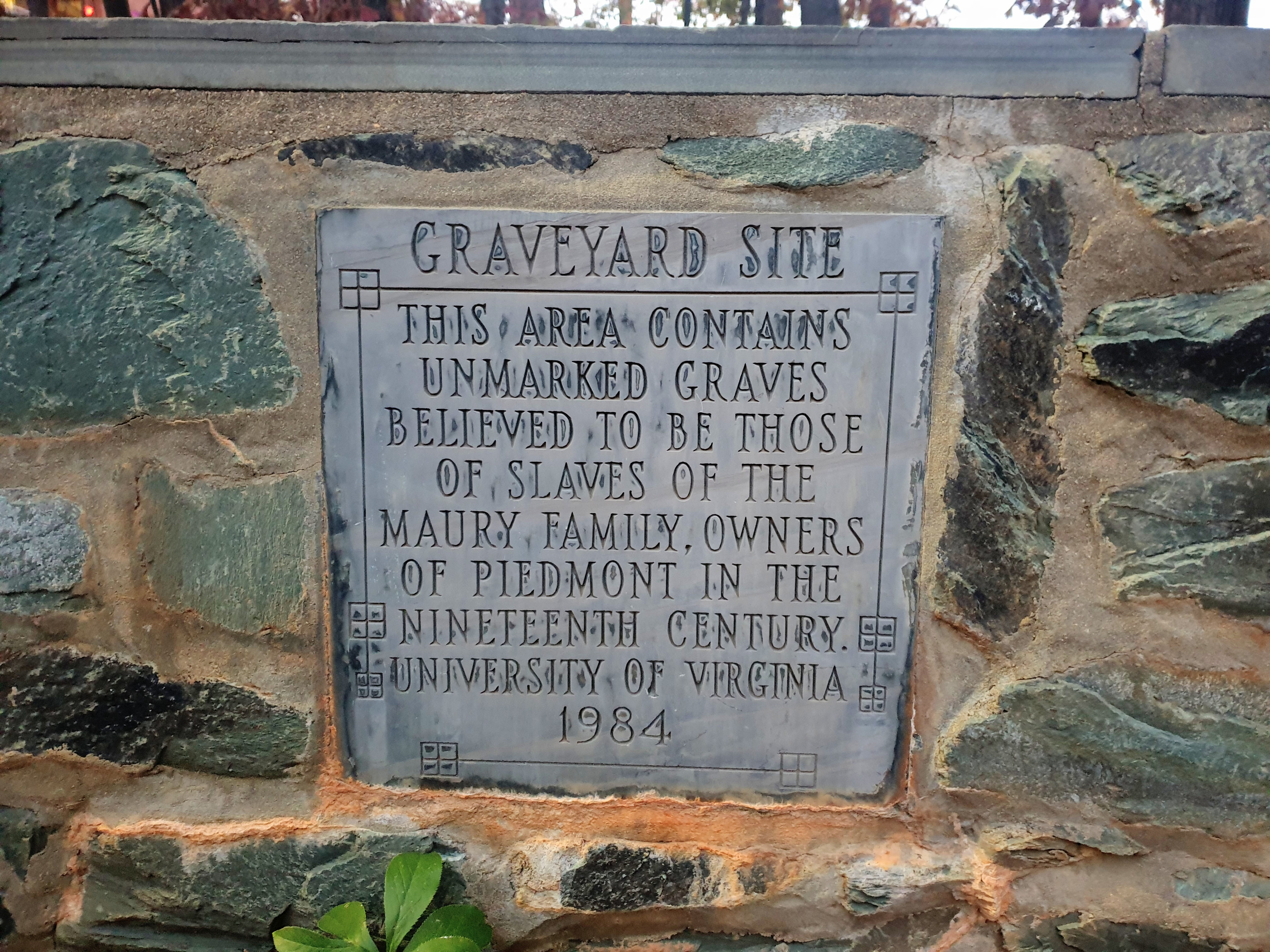 A plaque detailing where the unmarked graveyard once was inside Gooch Dillard halls